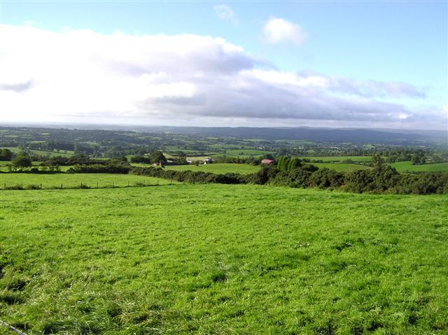 Tirnaskea, Ballygawley. Looking towards Killymorgan.